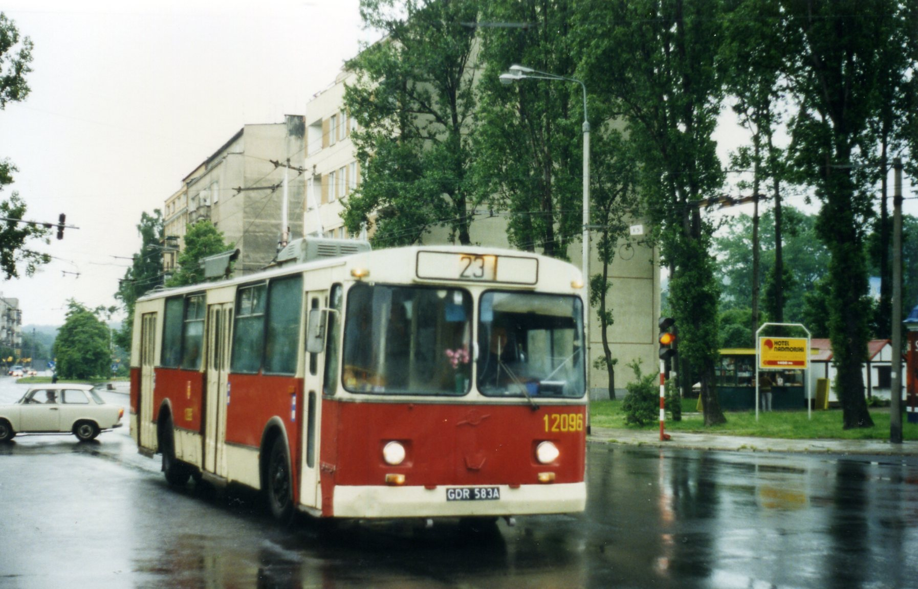 GDR 583A, ZiU9 trolleybus nr 12096, Soviet made, in Gdynia on route 23. 24 of these ЗиУ 9 trolleybuses were purchased. [ЗиУ%209 12096]was built in 1984, and delivered in 1985 and scrapped in 1998. At this time it was operated by PKAit, Przedsiębiorstwo Komunikacji Autobusowej i Trolejbusowej w Gdyni, sp. z o.o. a short lived manifestation of the local transport company, sandwiched between MKP/MZK Gdynia and PKM Gdynia. It was new to WPK Gdańsk before splitting of the businesses in 1989. PKM renumbered it 3096. Wikipedia page on Gdynia trolleybuses here in Polish.